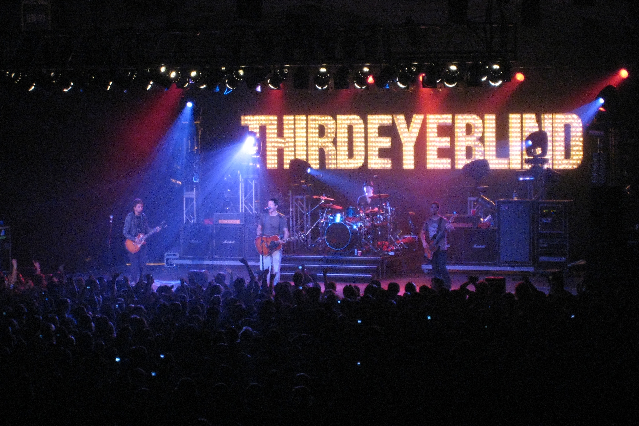 The band Third Eye Blind performs in the Kuhl Gymnasium at SUNY Geneseo.